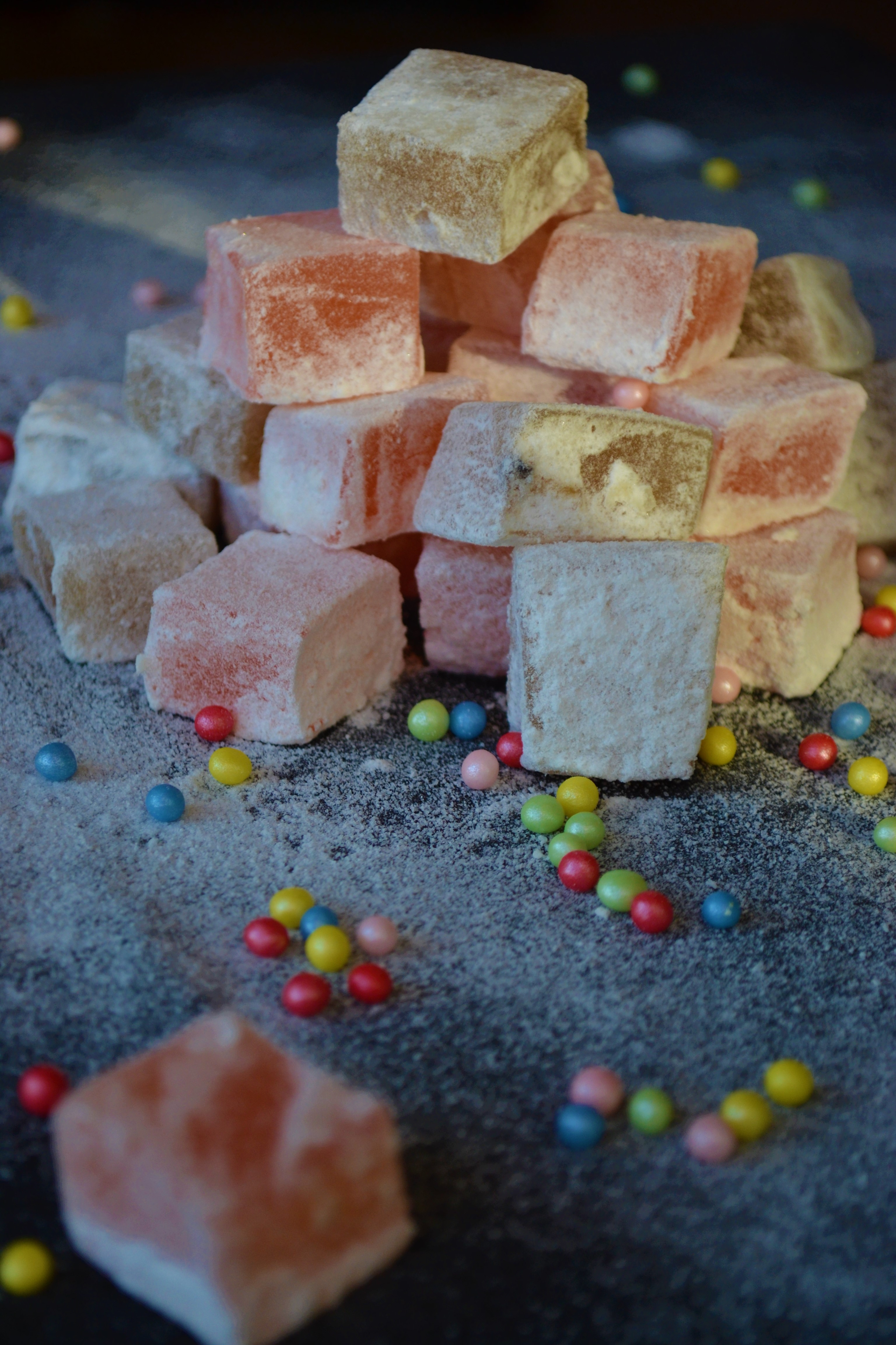 Lokum - sweet treat made of starch and sugar, flavored and often garnished with almonds, hazelnuts, walnuts or fruit flavoring.